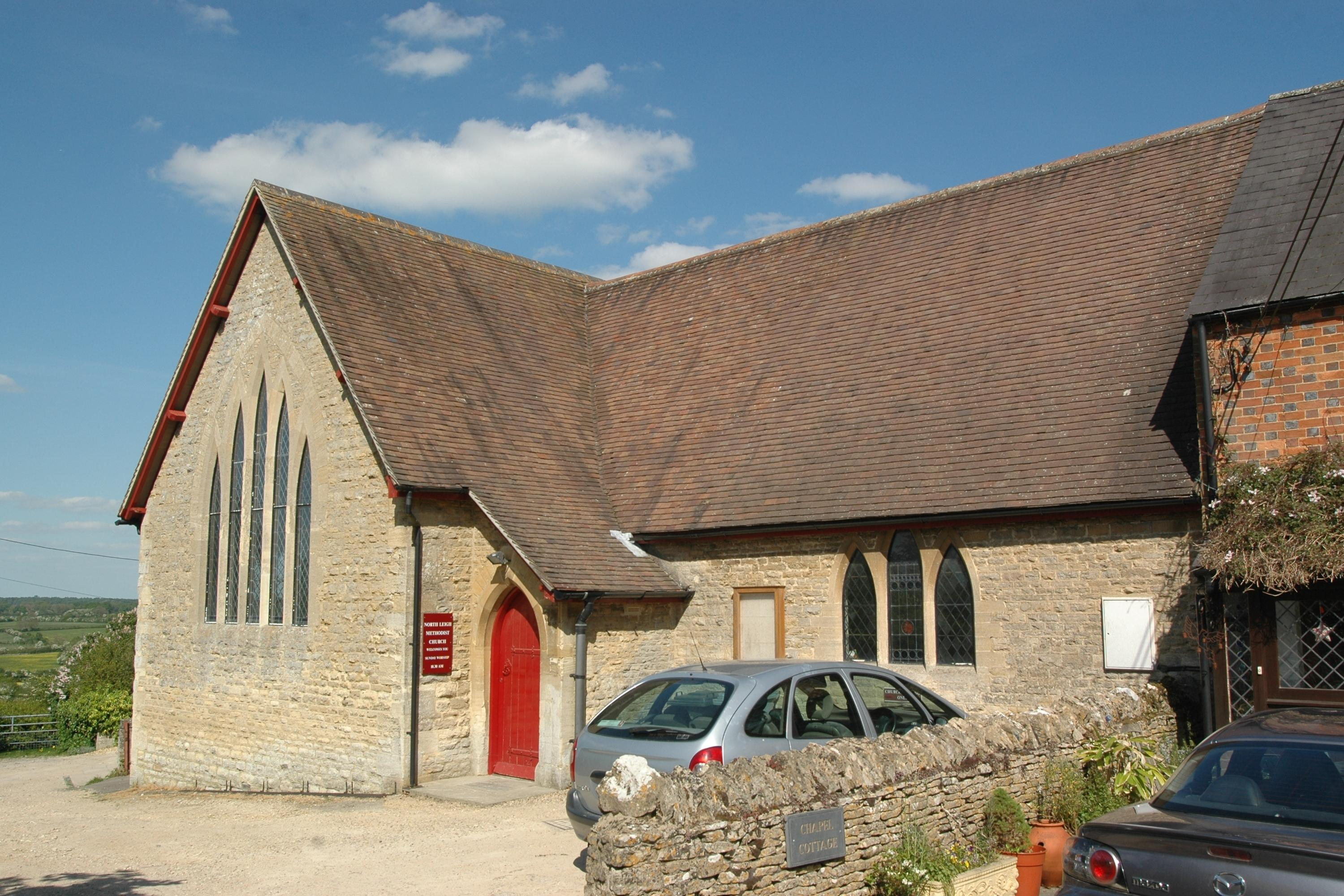 Methodist Church at North Leigh, Oxfordshire